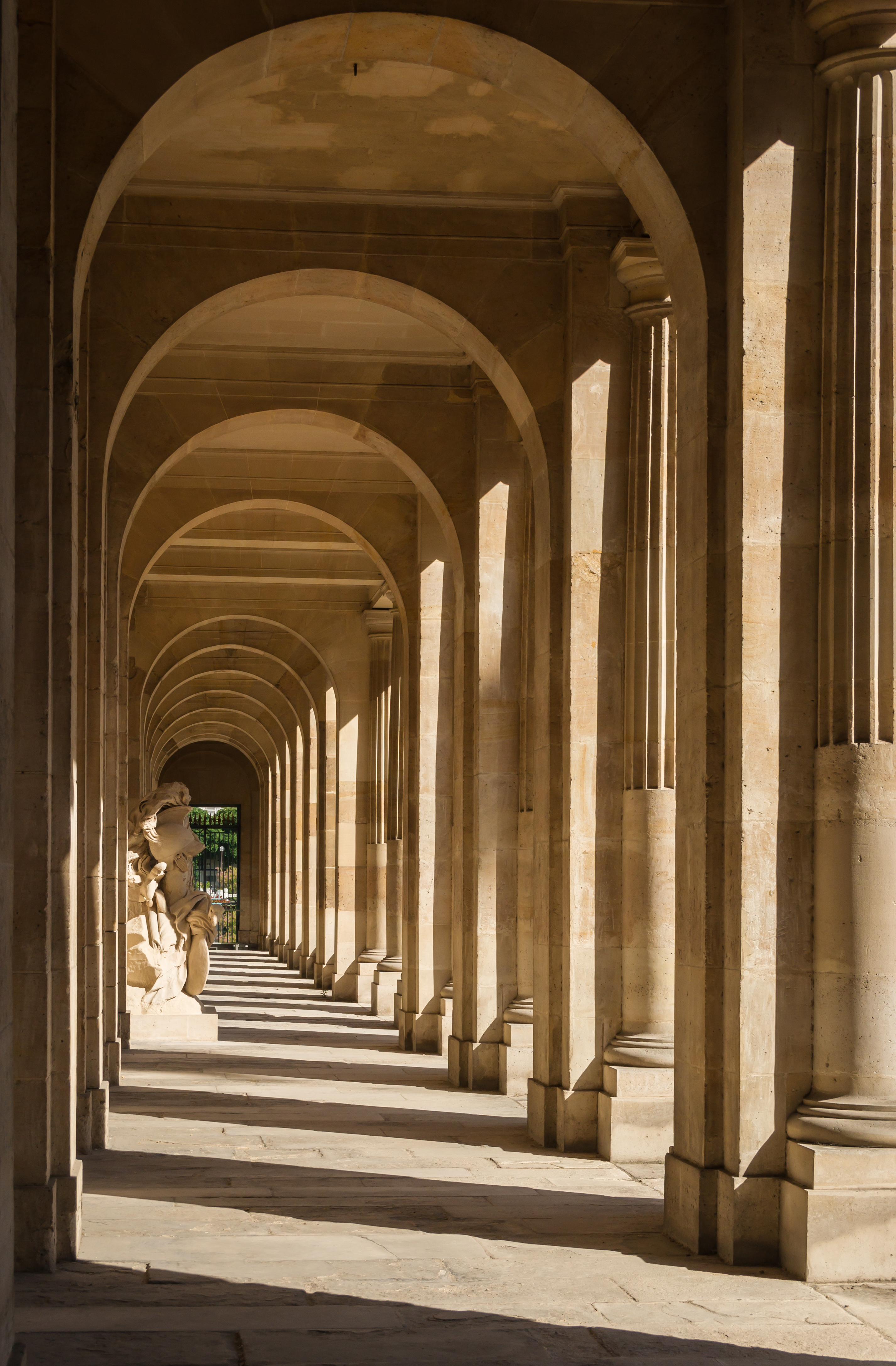 Gallery of the portico in the Honor Courtyard of the École Militaire in Paris, France.